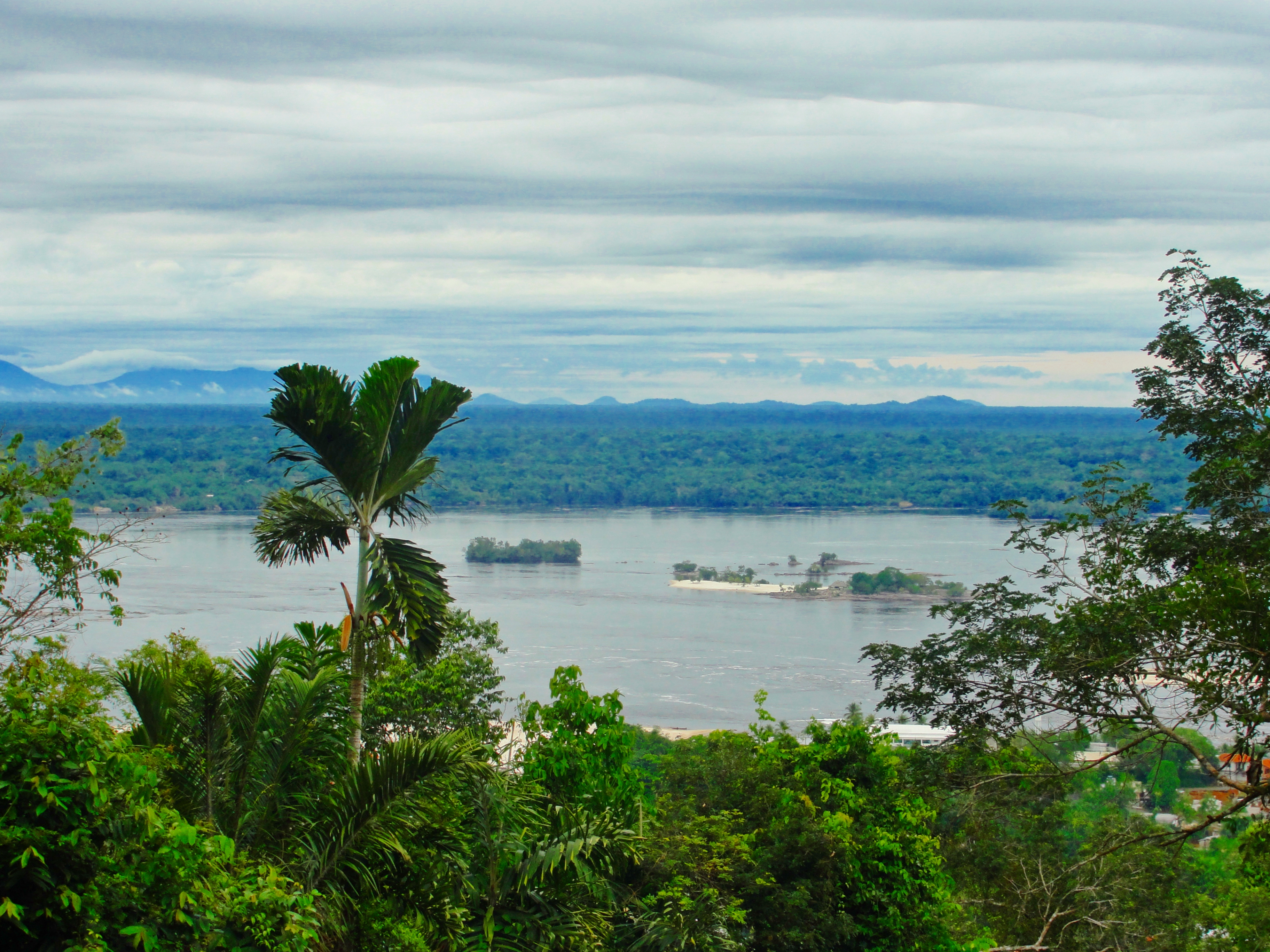 Sleeping Beauty